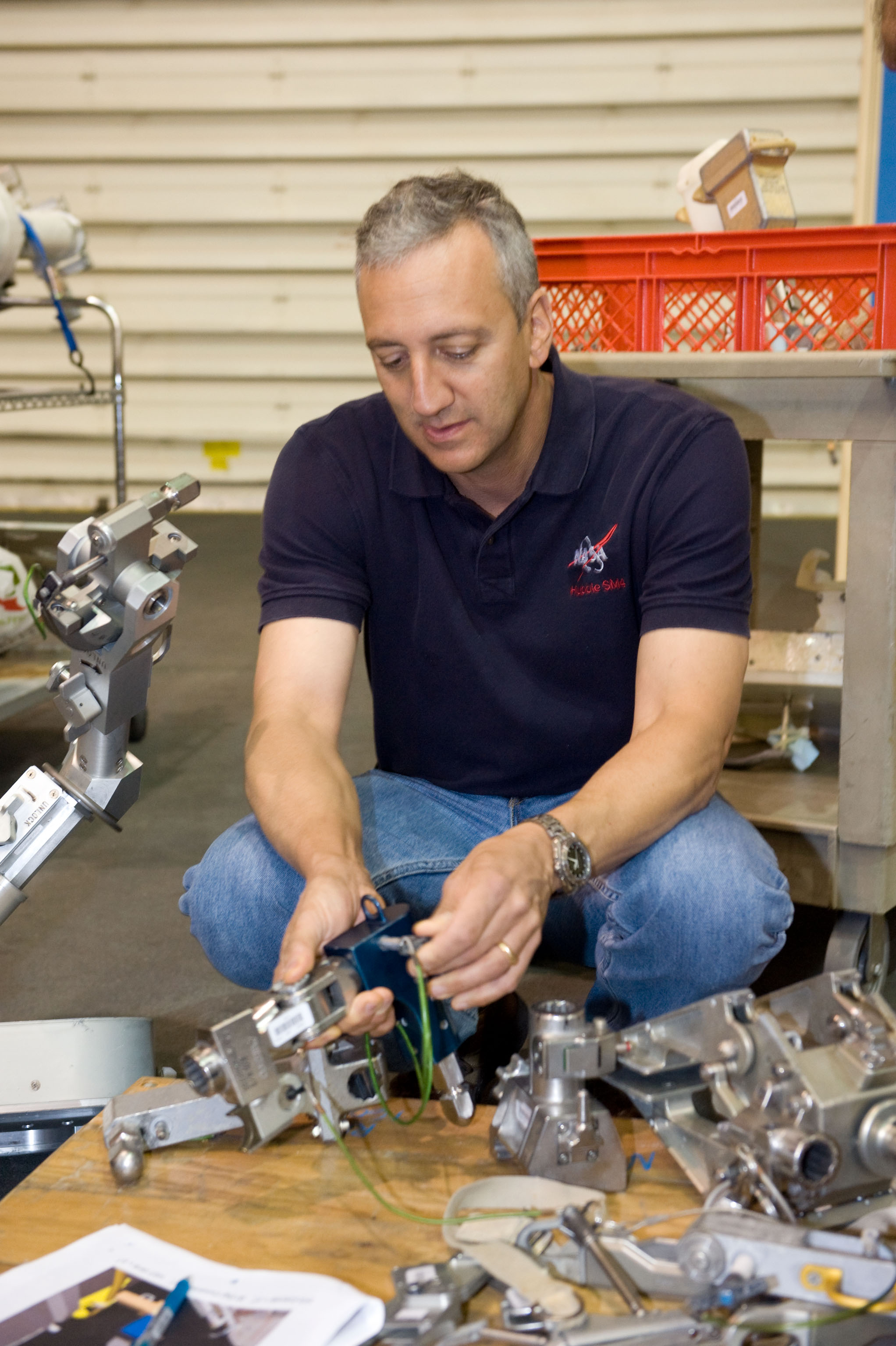 JSC2009-E-072668 (9 April 2009). Astronaut Mike Massimino, STS-125 mission specialist, works with extravehicular activity (EVA) hardware during a spacewalk training session in the Neutral Buoyancy Laboratory (NBL) near NASA's Johnson Space Center.